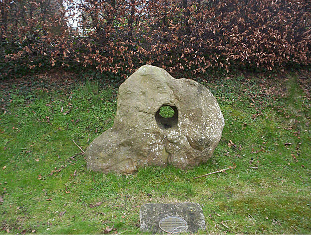 Woodborough Holed Stone As you turn into the village the Stone is on the right. Placed there on 17th Aug. 1995 to commemorate the 50th anniversary of the end of WWII. Richard Avery (talk) 15:32, 11 December 2015 (UTC)